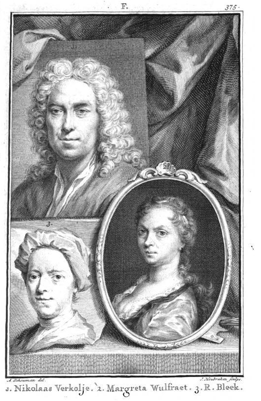 Engraved portraits of Nicolaas Verkolje (upper left), Margaretha Wulfraet (right), and R Bleek (lower left). Engraved by Jacob Houbraken after Aert Schouman in Jan van Gool's "Nieuw Schouburg", 1750